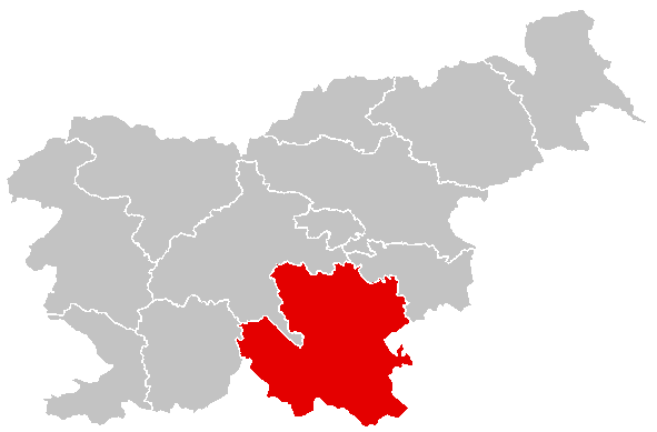 map representing Jugovzhodna Slovenija statitsical region modified from File:Slovenian-regions-obalnokraska.png